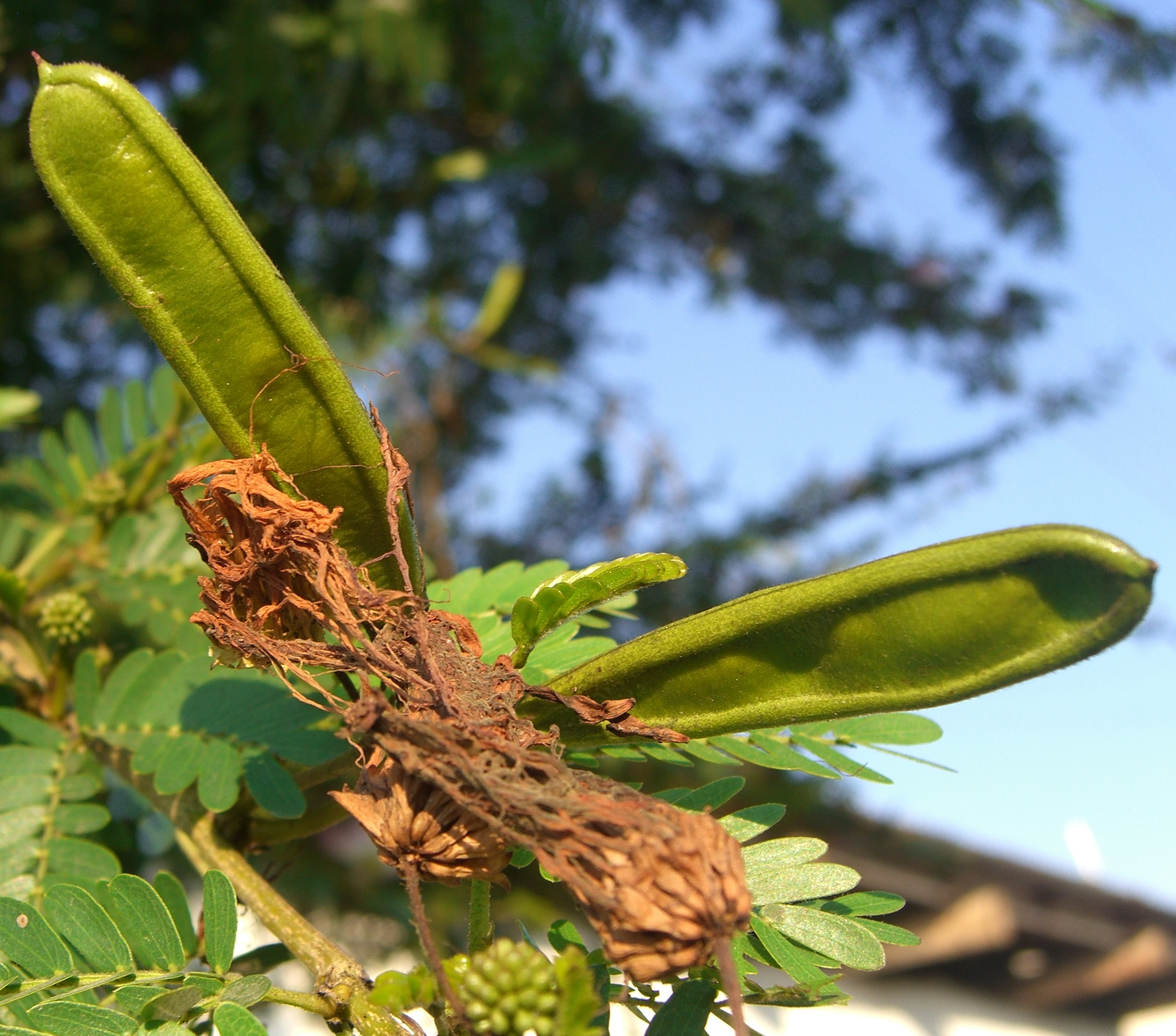 Please report references to .